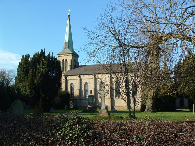 Holy Trinty Stowupland